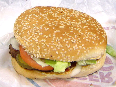 Burger King Whopper Combo April 2005, Mississauga, Canada.